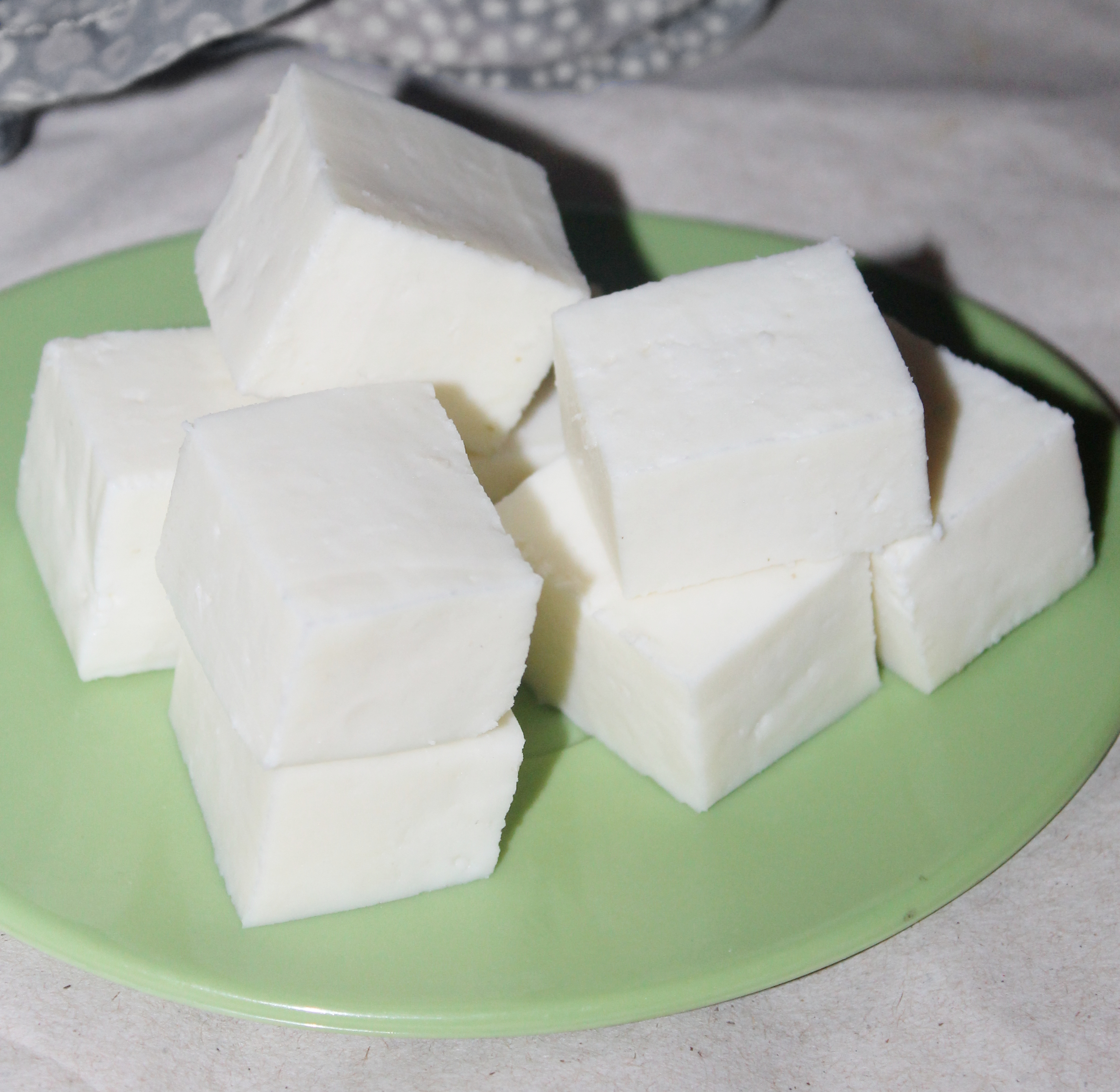 homemade paneer cottage cheese